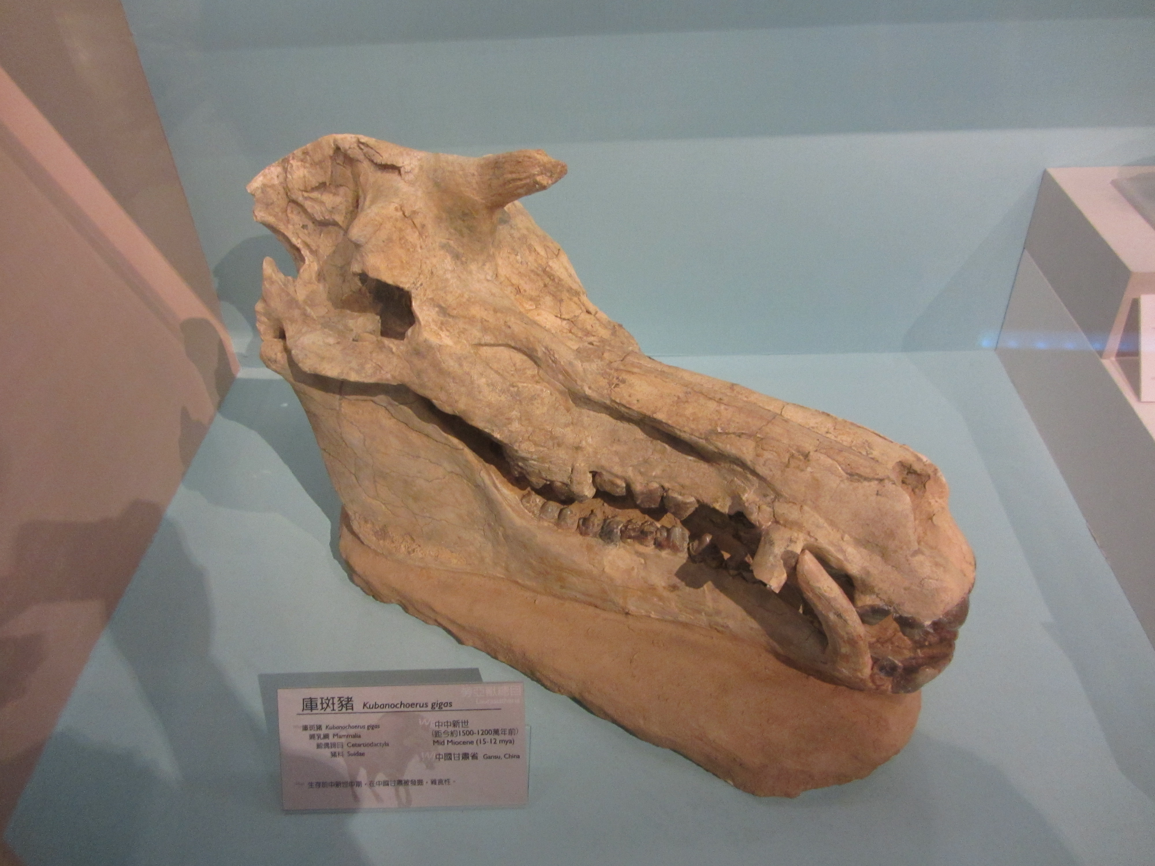 Skull of Kubanochoerus gigas